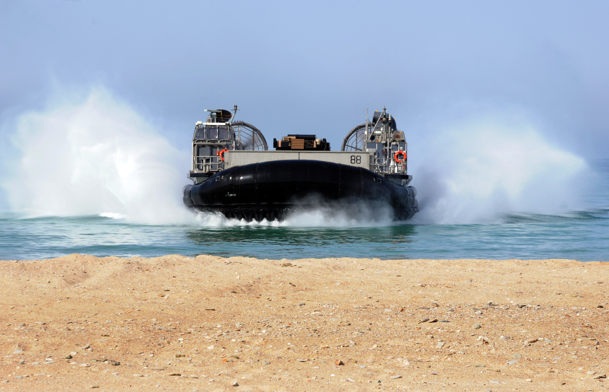 SIERRA DEL RETIN, Spain (June 28, 2011) A landing craft air cushion (LCAC) assigned to Assault Craft Unit (ACU) 4, embarked aboard the multipurpose amphibious assault ship USS Bataan (LHD 5), prepares to land on a beach in Spain during an amphibious assault as part of the bilateral Spanish Amphibious Landing Exercise (PHIBLEX) 2011. (U.S. Navy photo by Mass Communication Specialist 3rd Class James Turner/Released)